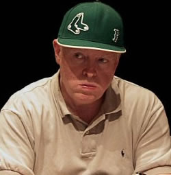 Dan Harrington Found at Blind Bet Poker, though it credits for the image.